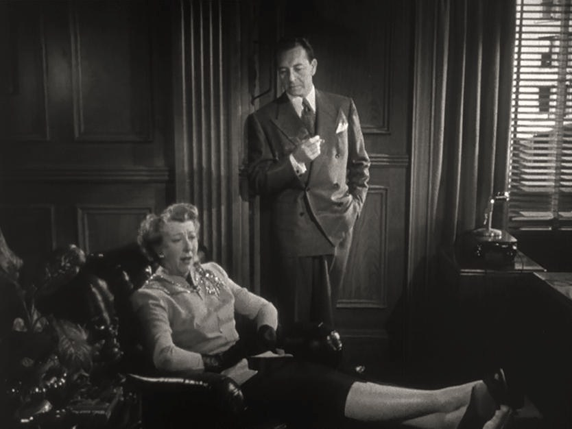 Catherine Doucet & Paul Henreid in Hollow Triumph (aka The Scar, UK title) - cropped screenshot